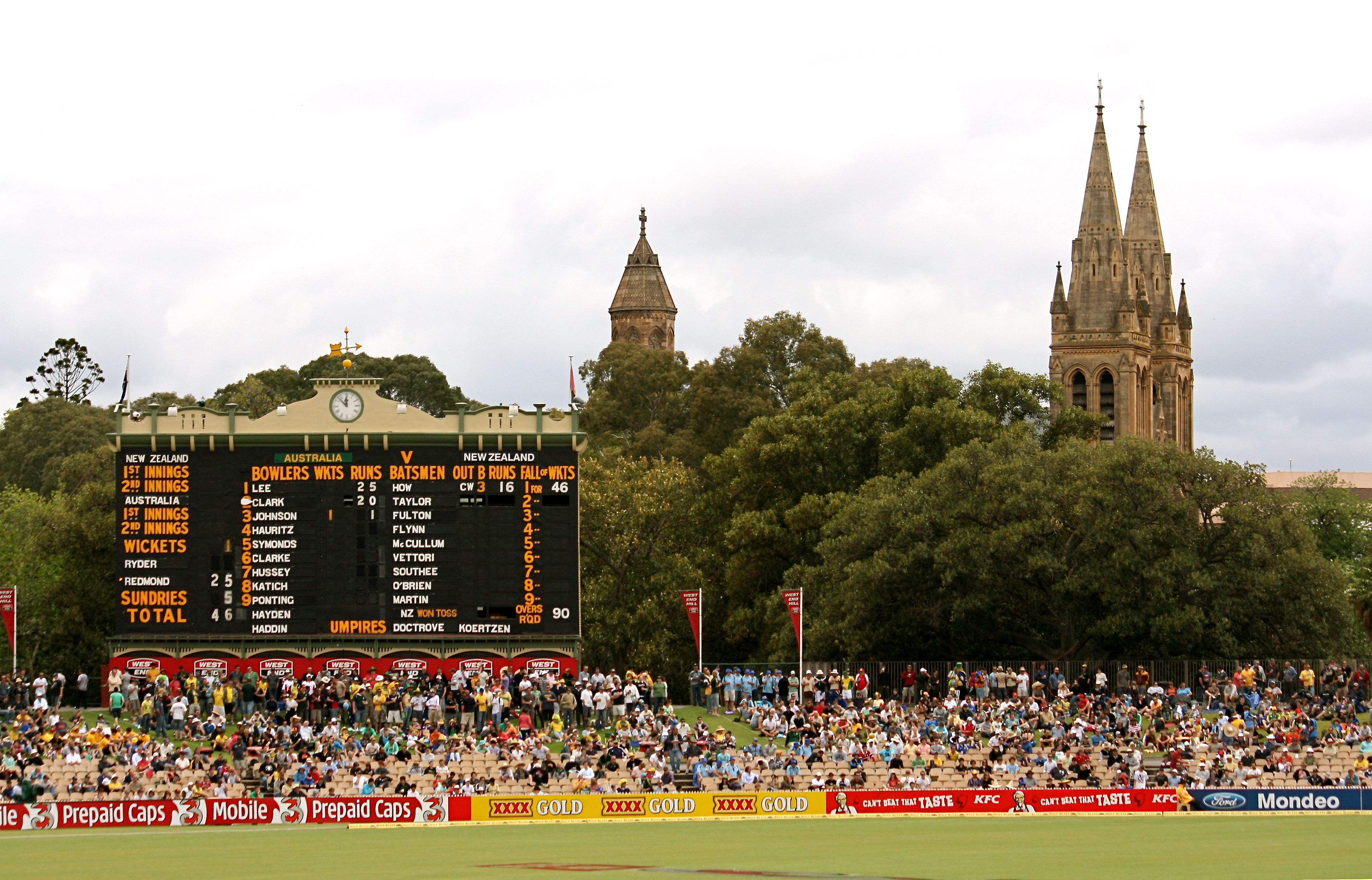 The historic scoreboard at Adelaide Oval with Moreton Bay fig trees and St Peters Cathedral in the background. Pretty as a picture. First day of the Test Match between Australia and New Zealand. Scheduled as a 5-day match, sadly, for cricket fans, it was all over inside 4 days. Even that probably sounds quite long enough for non-cricket aficionados. Australia had a fairly comfortable win. New Zealand was a bit under strength with a fairly inexperienced squad... in a rebuilding phase. Adelaide Oval, South Australia.